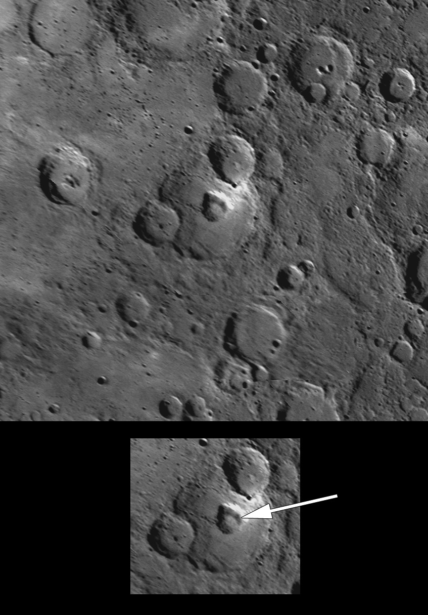 Date Acquired: January 14, 2008 Instrument: Narrow Angle Camera (NAC) of the Mercury Dual Imaging System (MDIS) Resolution: 510 meters/pixel (0.32 miles/pixel) Scale: The central impact crater Gibran, with a pit crater on its floor, is 102 kilometers (63 miles) in diameter. Location: 35.5°N, 249.1°E Projection: This image is an orthographic reprojection created from NAC images taken as MESSENGER approached Mercury during its first flyby. Of Interest: The newly named crater Gibran, located at the center of this image, contains a large, nearly circular pit crater, identified with the white arrow. Multiple examples of pit craters have been observed on Mercury on the floors of impact craters, leading to the name pit-floor craters for the impact structures that host these features. Unlike impact craters, pit craters are rimless, often irregularly shaped, steep-sided, and display no associated ejecta or lava flows. These pit craters are thought to be evidence of shallow volcanic activity and may have formed when retreating magma caused an unsupported area of the surface to collapse, creating a pit. Pit-floor craters may provide an indication of internal igneous processes where other evidence of volcanic processes is absent or ambiguous. The discovery of multiple pit-floor craters augments a growing body of evidence that volcanic activity has been a widespread process in the geologic evolution of Mercury's crust.